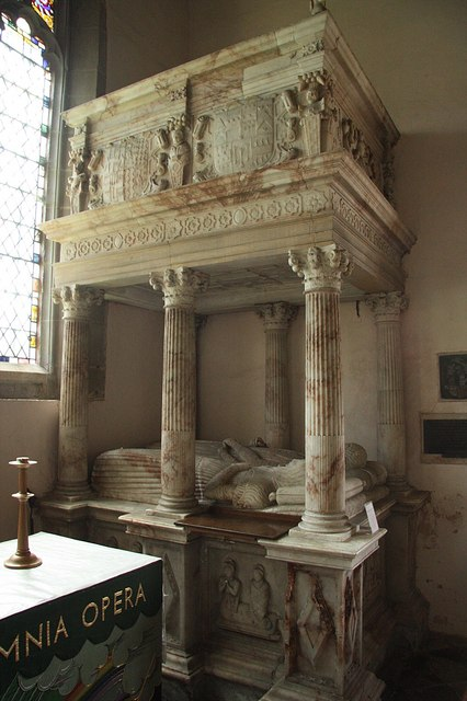 Sir John Throckmorton Six-poster tomb in St.Peter's church, Coughton to Sir John and Lady Marjorie Throckmorton, he died in 1580